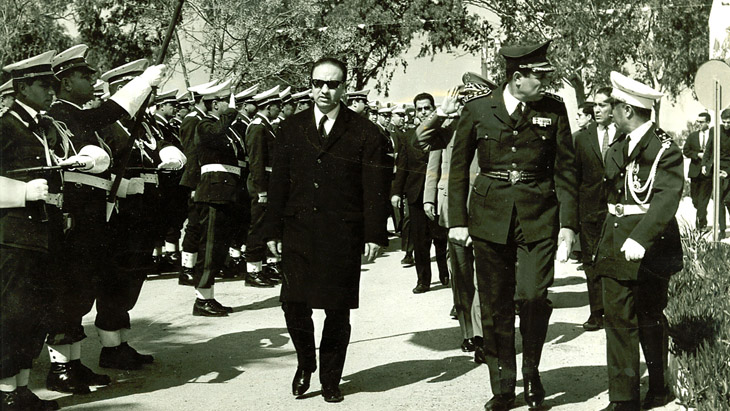 Beji Caïd Essebsi minister of defense